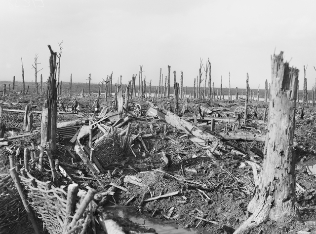 View of the devastated Chateau Wood and Bellewaarde Lake, in the Ypres Salient in Belgium.